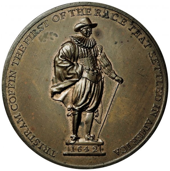 1827 medal depicting Tristram Coffin (1605-1681), pioneer Nantucket settler